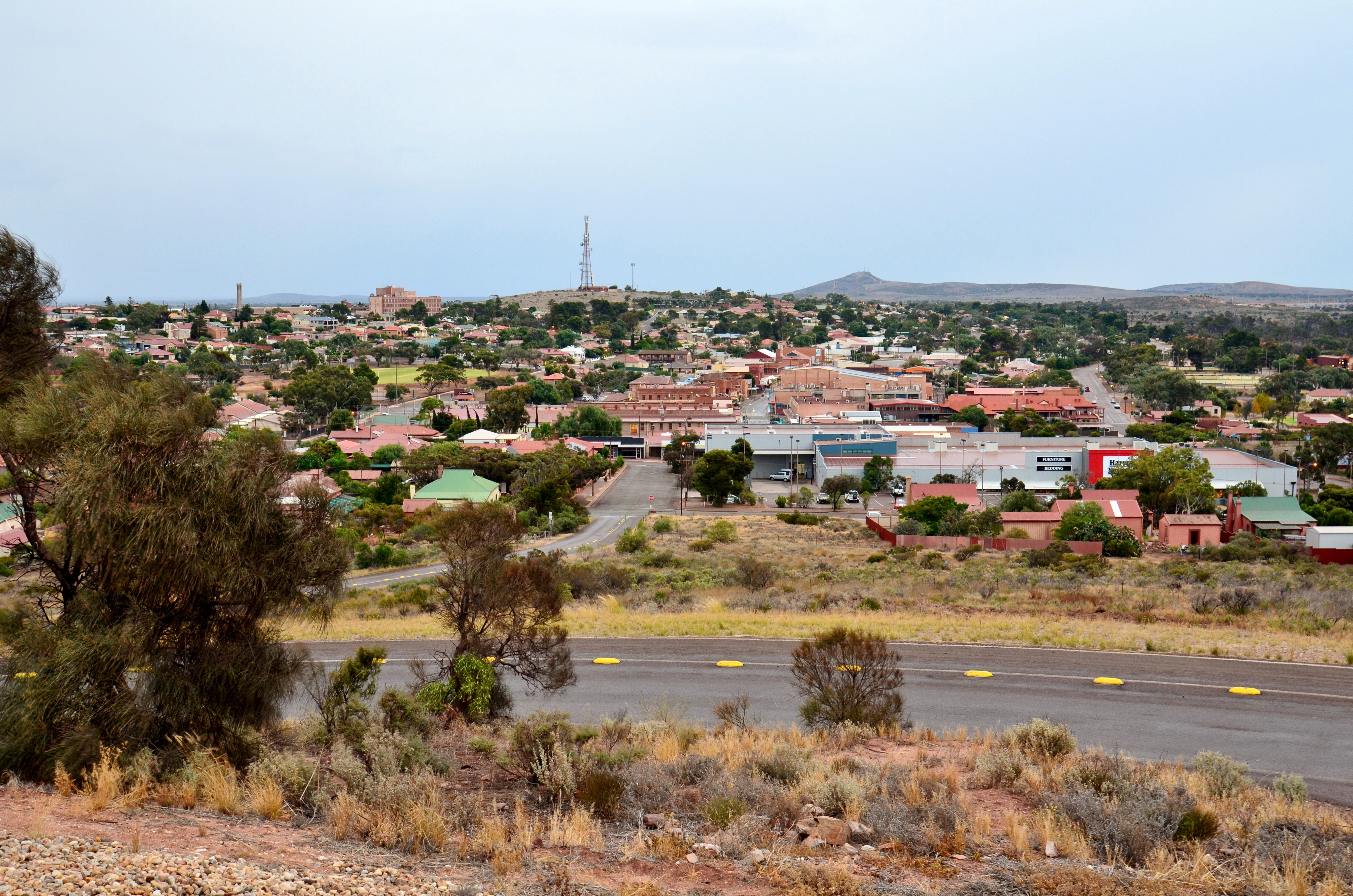 View from Hummock Hill, Whyalla, South Australia, looking towards the city centre